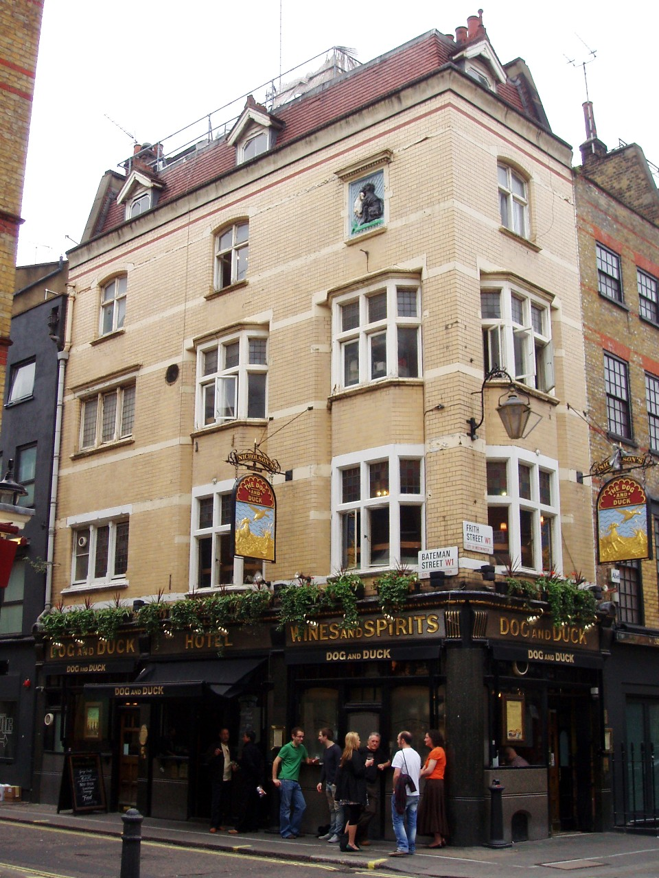 A busy pub in Soho with some lovely tilework inside. It's very small, but there's some upstairs seating that's quite nice. Beers are good value for Soho, too. (View of upstairs bar interior.) (View of tiling in doorway.) (Photo of vegetarian sausage & mash.) Address: 18 Bateman Street (formerly Queen Street). Former Name(s): The Dog and Duck Hotel. Owner: Mitchells and Butlers [Nicholson's] (website). Links: Randomness Guide to London Fancyapint Beer in the Evening CAMRA National Inventory Dead Pubs (history)